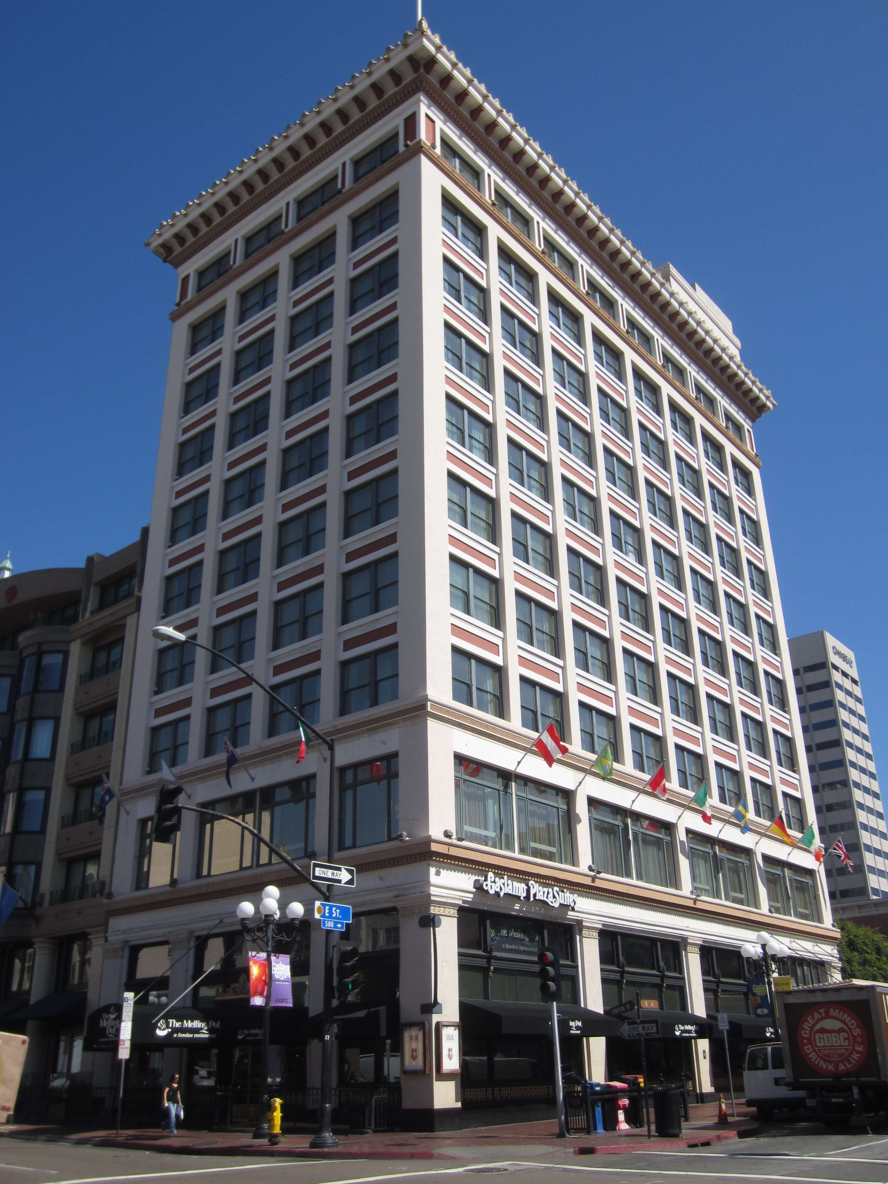 The Watts-Robinson Building, in San Diego, California, was built in 1913 and is listed on the U.S. National Register of Historic Places. Since 1988, its primary use has been as a hotel, the Gaslamp Plaza Suites.